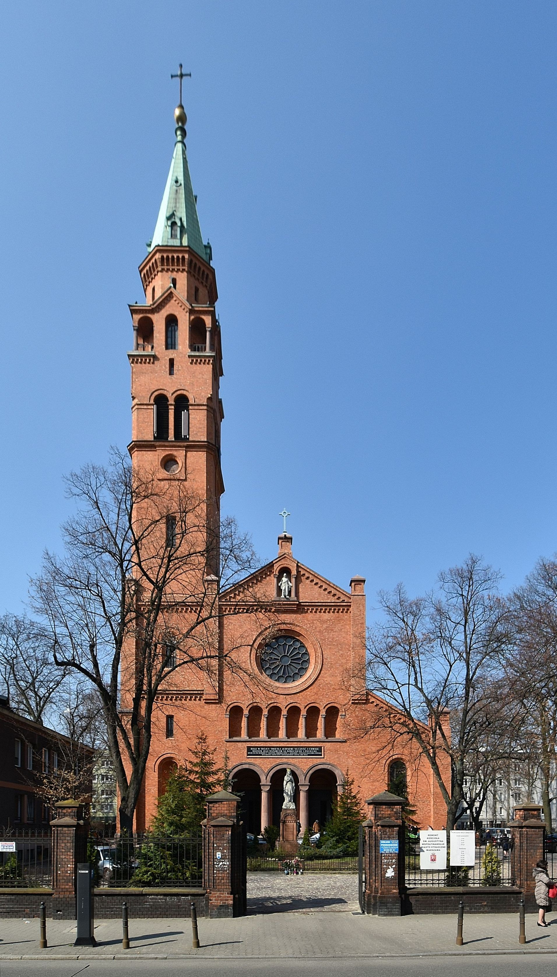 Saint Augustinus church in Warsaw